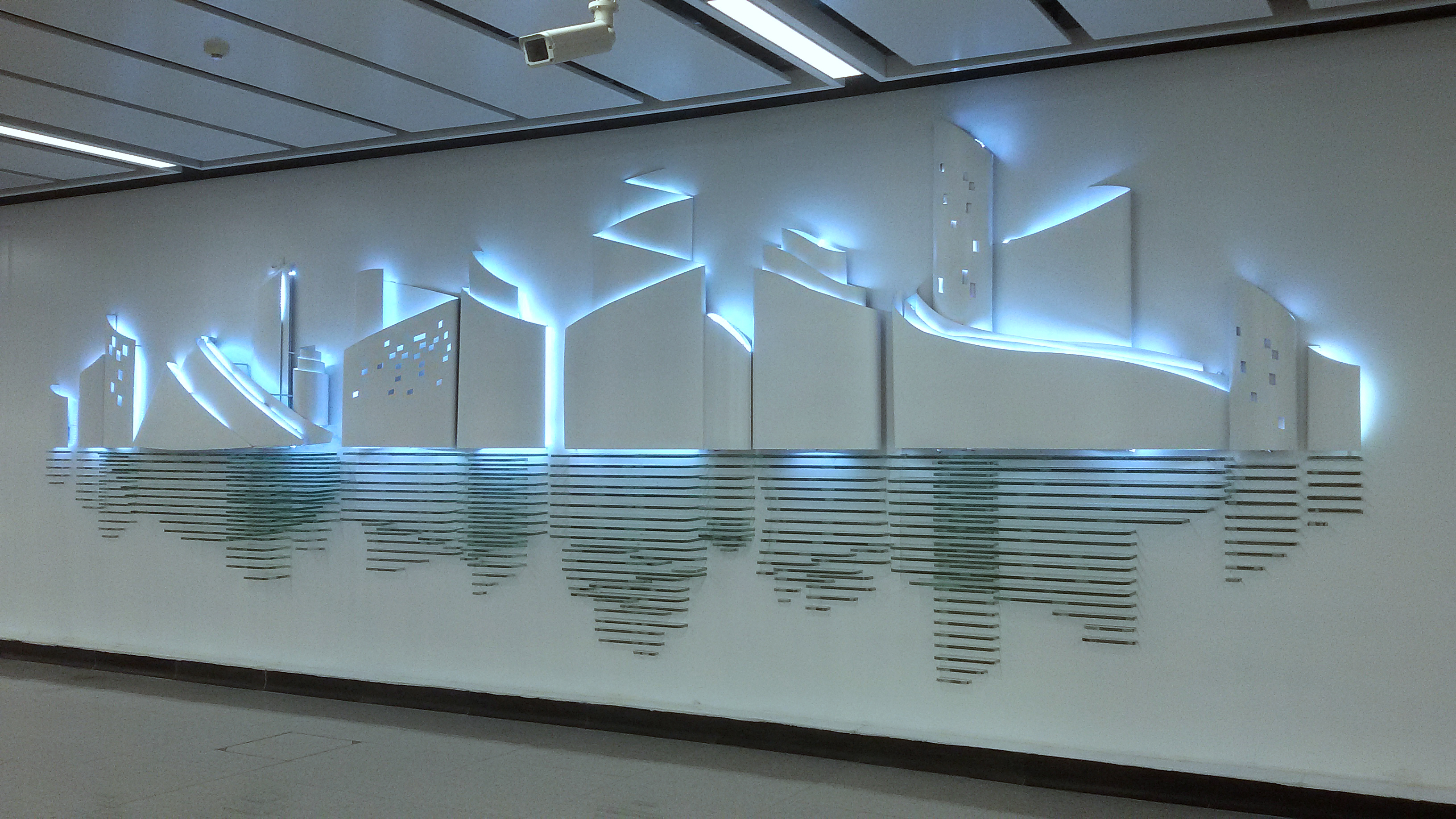 Decoration on the wall at the concourse in Sino-Singapore Guangzhou Knowledge City Station